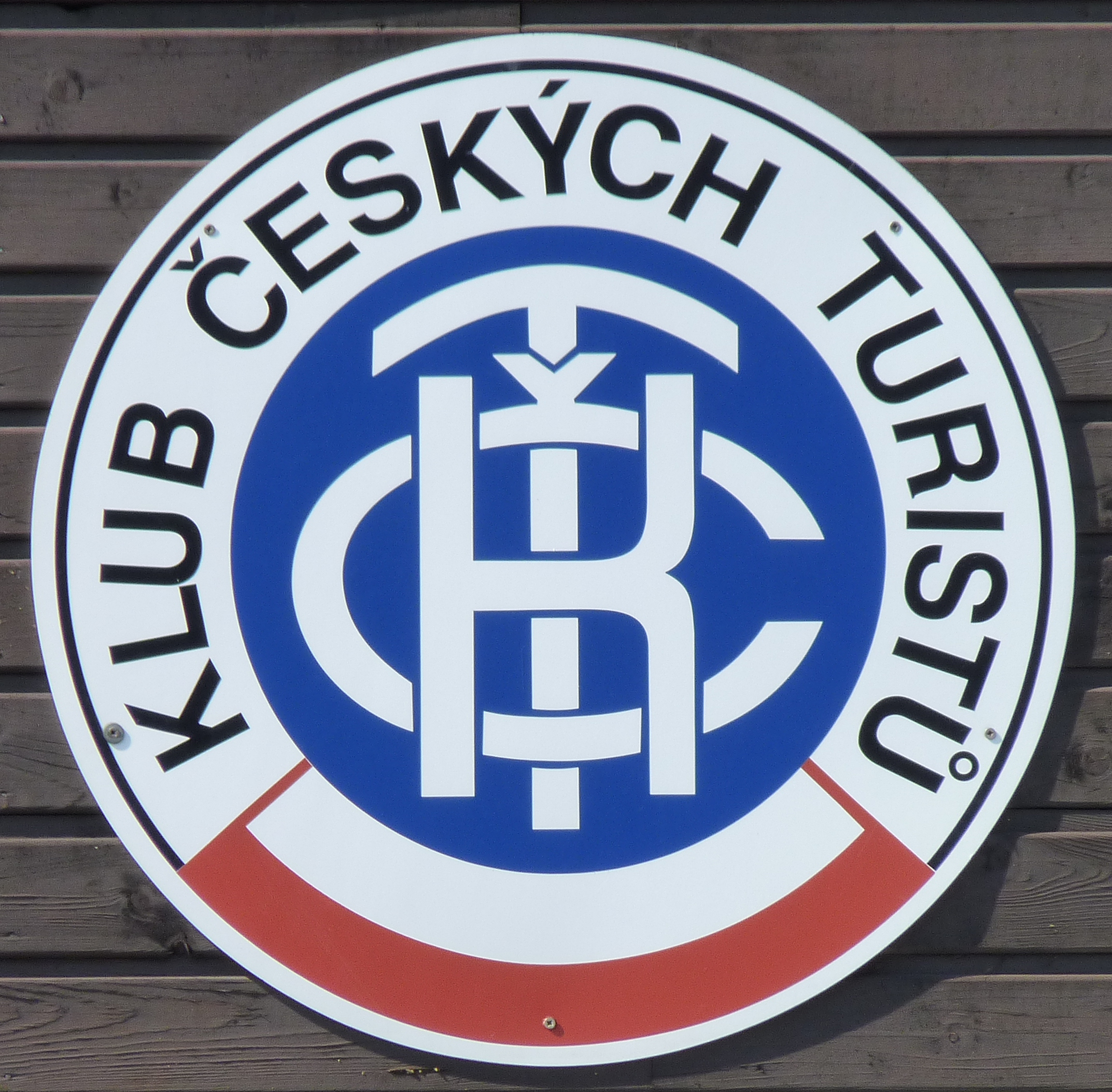 Skalka cottage. Moravian-Silesian Beskids, Czech Republic